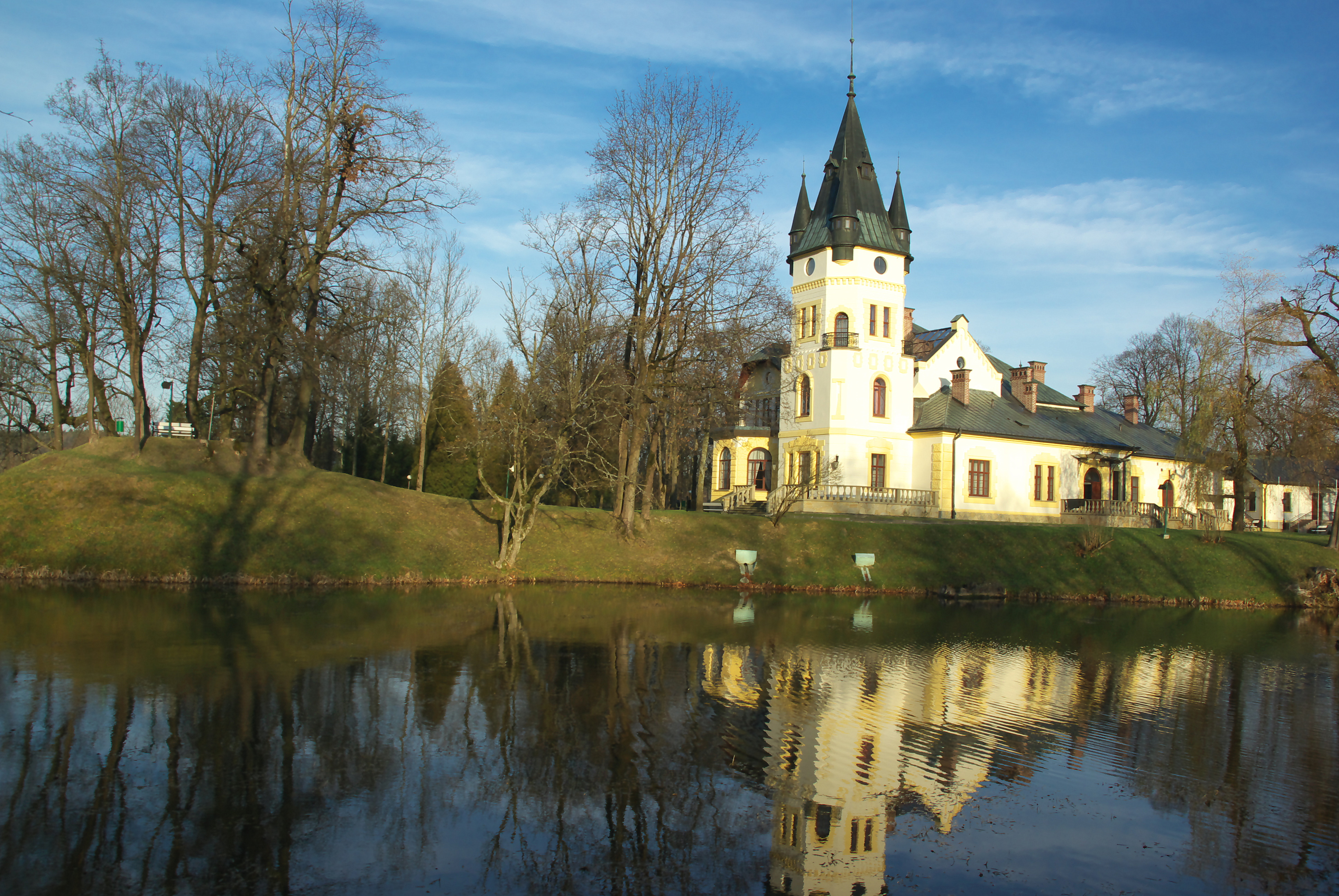 Palace in Olszanica, Bieszczady, Poland